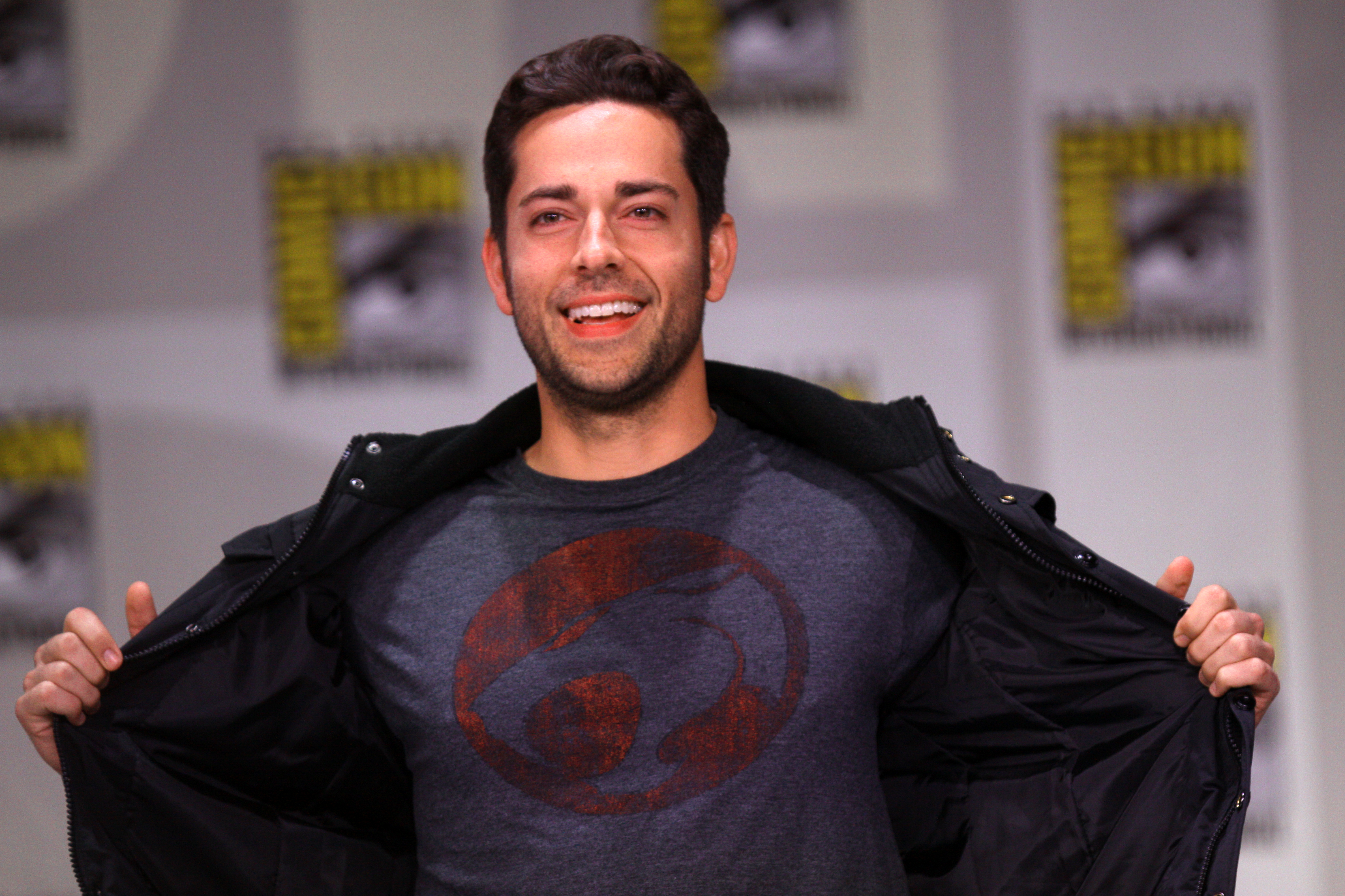 Zachary Levi at the 2011 San Diego Comic-Con International in San Diego, California.